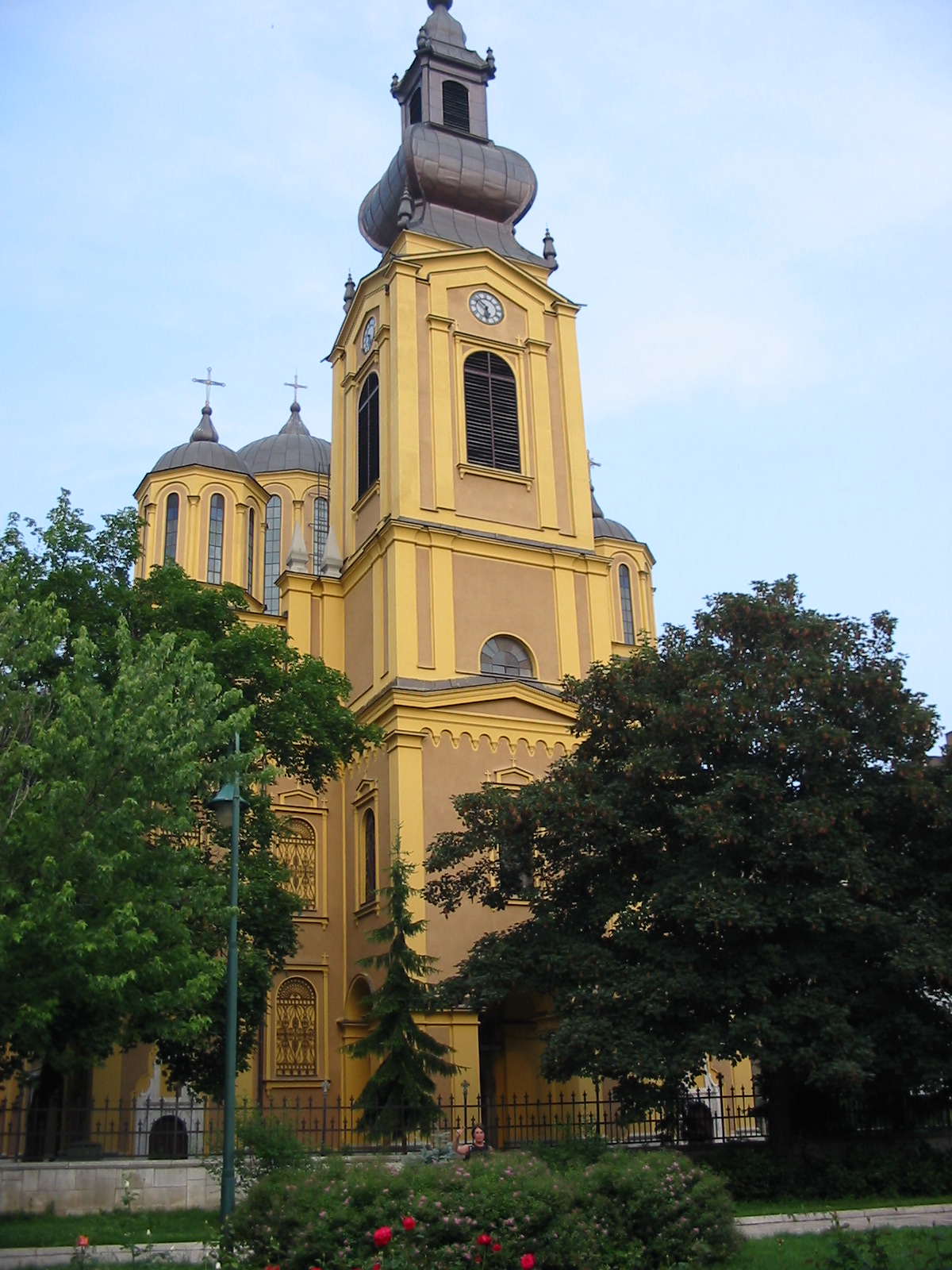 The serbian orthodox church in Sarajevo.